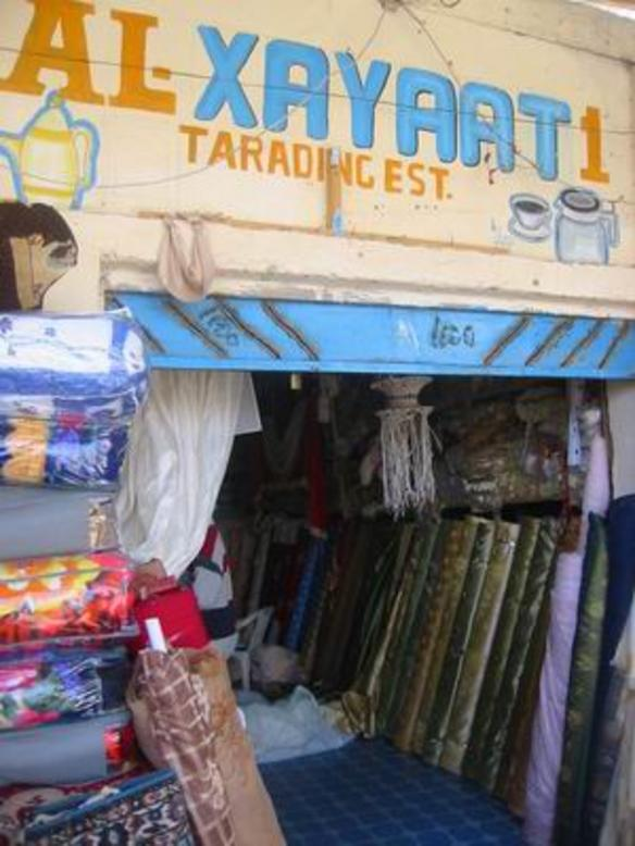 A fabric and carpet boutique in the old section of Burco, situated in the northwestern Somaliland region of Somalia.